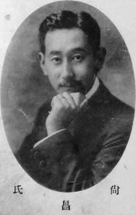 Marquis Sho Sho (1888 - 1923), the 21th head of Sho family, the Royal House of Ryukyu Kingdom.